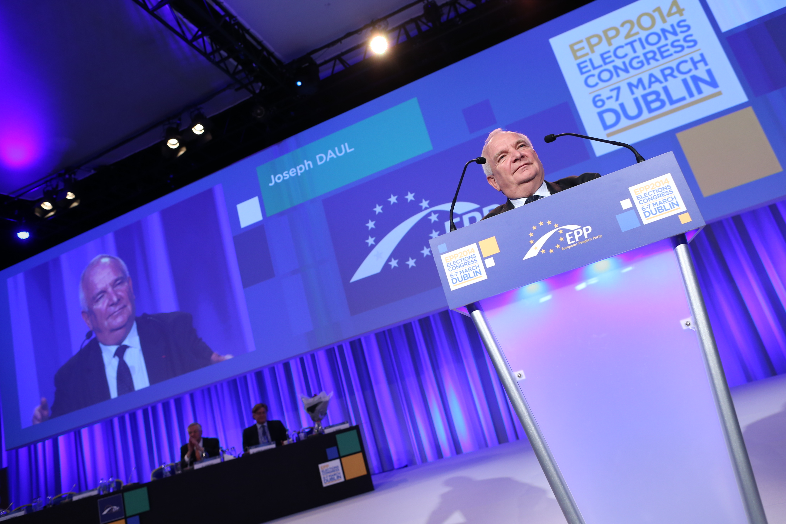 EPP Dublin Congress, 2014